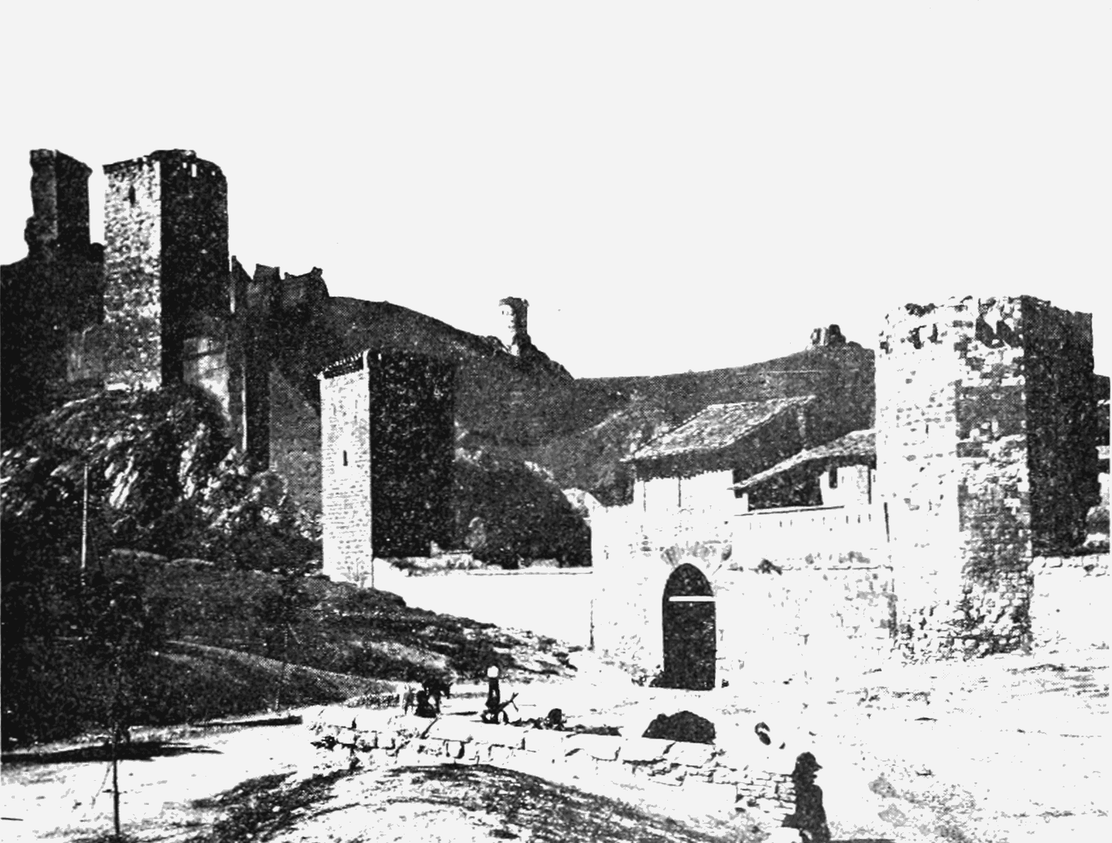 North gate Daroca